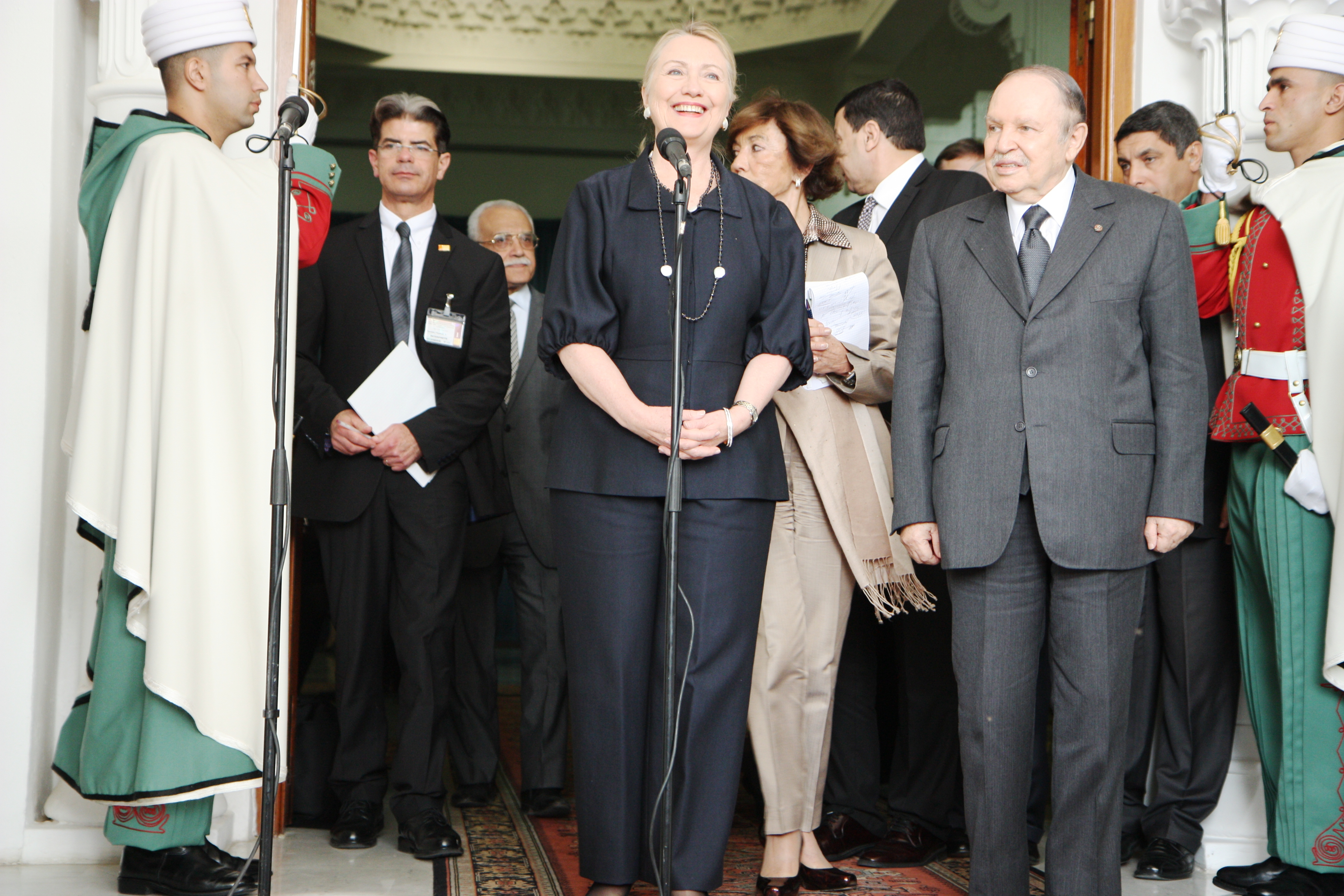 U.S. Secretary of State Hillary Rodham Clinton addresses reporters after meeting with Algerian President Abdelaziz Bouteflika in Algiers, Algeria, October 29, 2012. [State Department photo/ Public Domain]